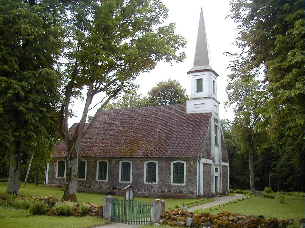 Dikļi Evangelical Lutheran ChurchLatviešu: Dikļu evaņģēliski luteriskā baznīca